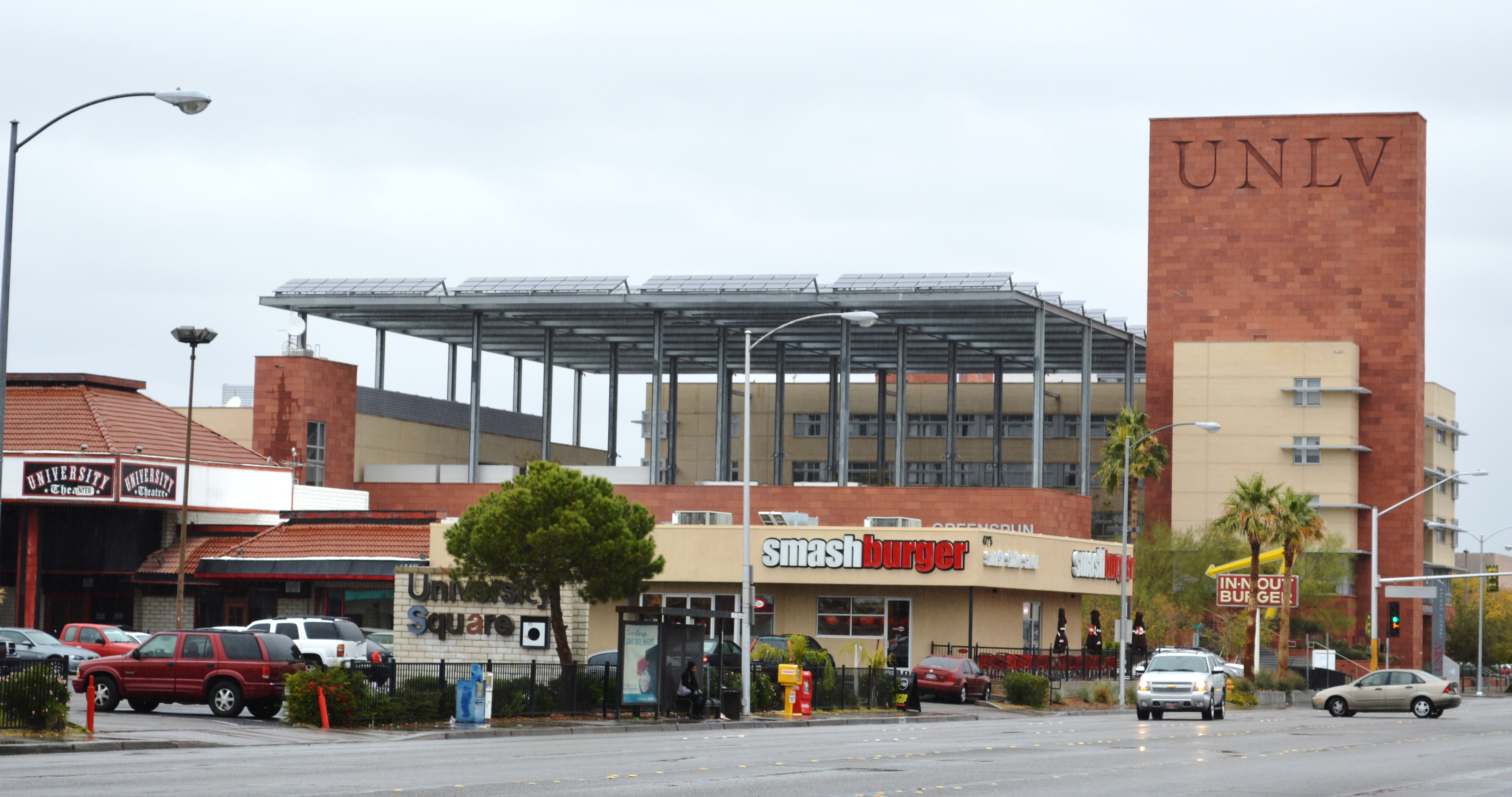 University of Nevada, Las Vegas (UNLV) and the University Square - taken on a rainy day.